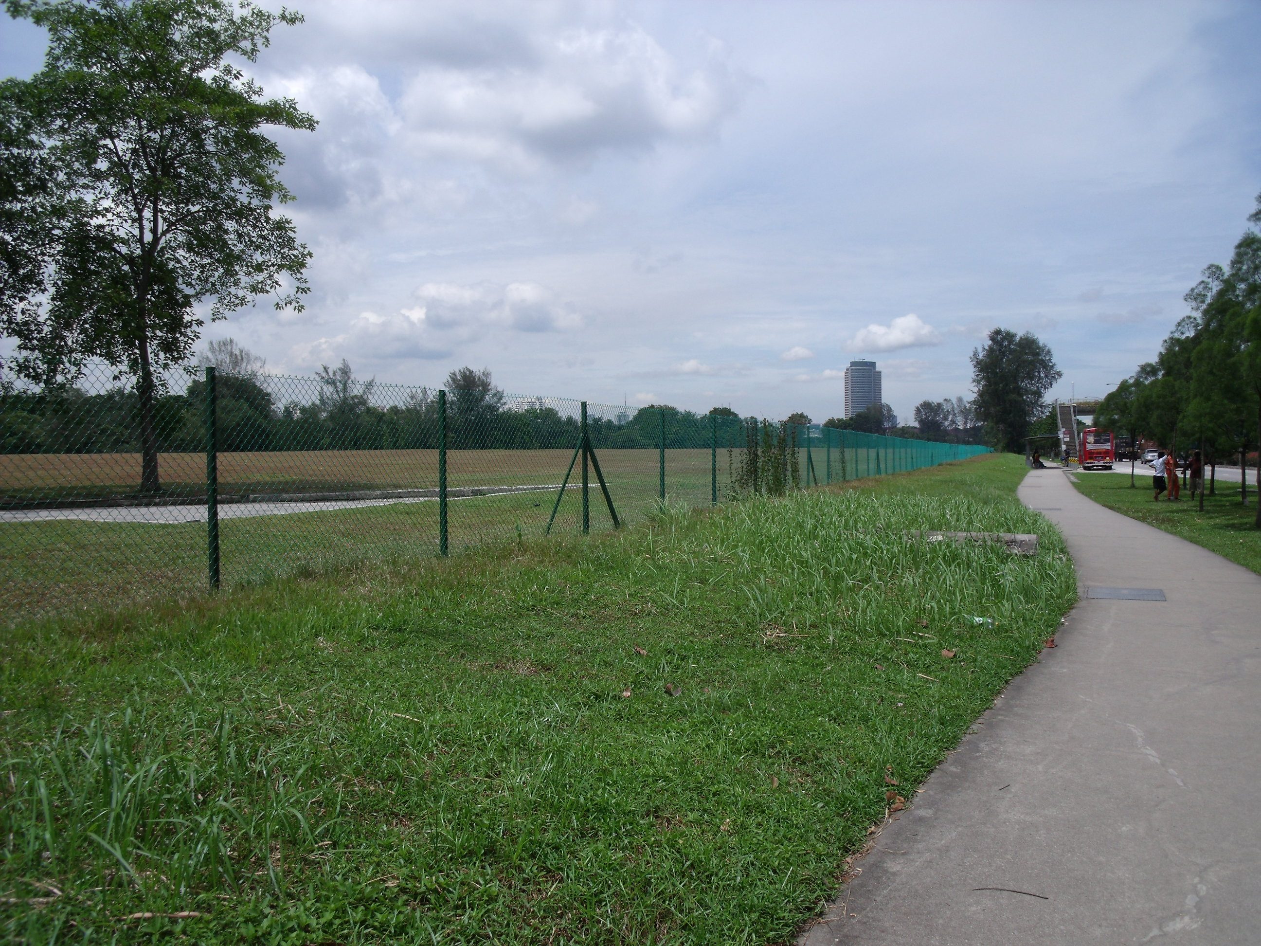 Chain link fence surrounding a field in Jurong, Singapore.